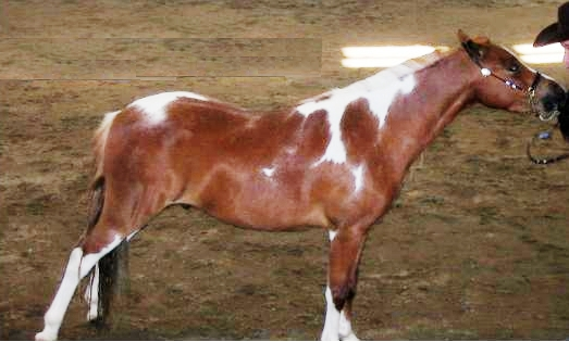 Chestnut tobiano with sabino. FSP Giles Bard Song - Hall of Fame Halter Foundation American Shetland Pony gelding. Owned and photographed by Elizabeth M.E. Hall, Fire Song Ponies, Iowa)